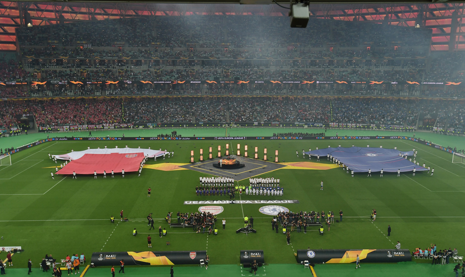 Chelsea won UEFA Europa League final at Olympic Stadium and President Ilham Aliyev watched the final match